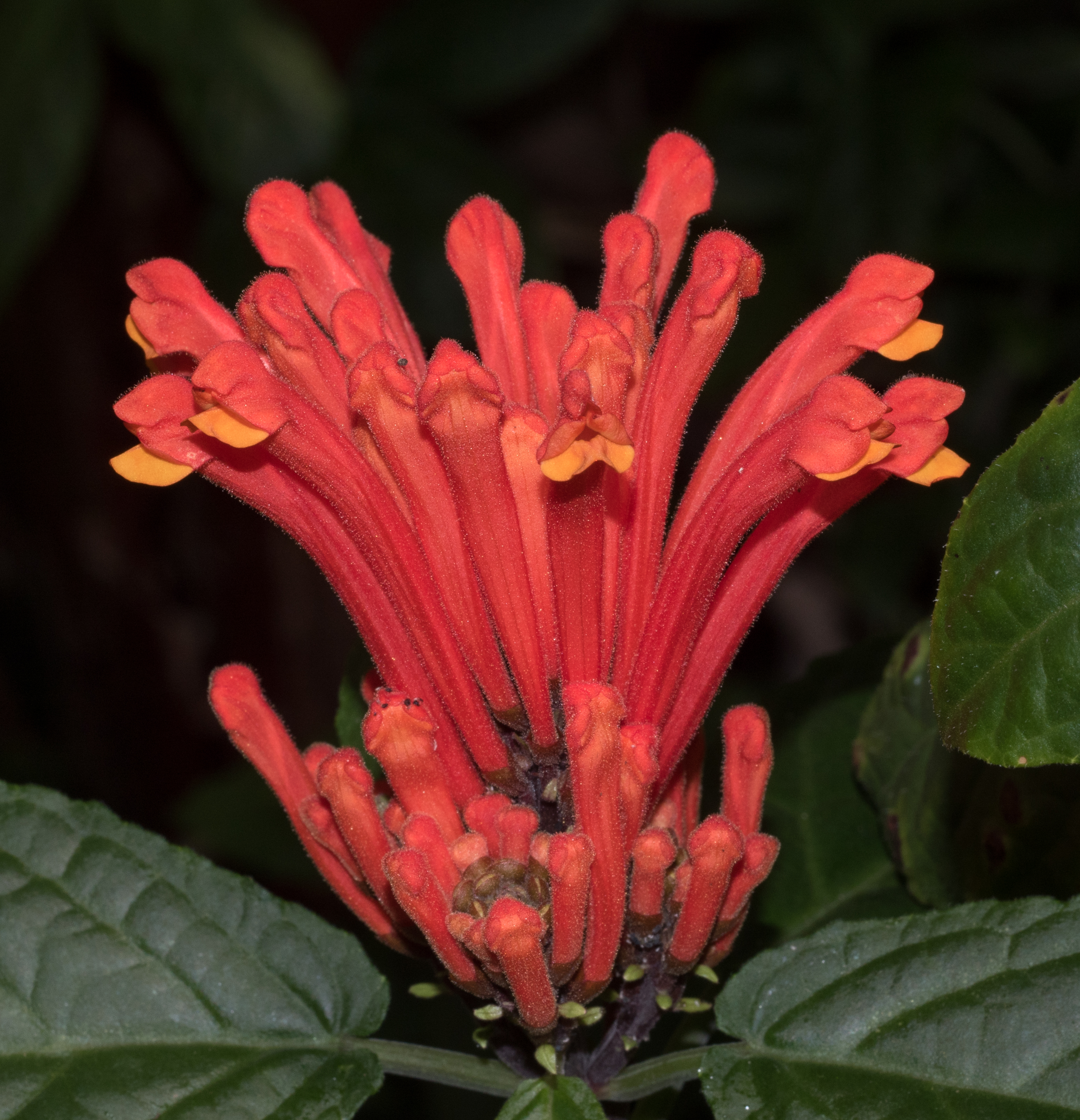 Scarlet skullcap (Scutellaria costaricana) flowers Brooklyn Botanic Garden in January 2019